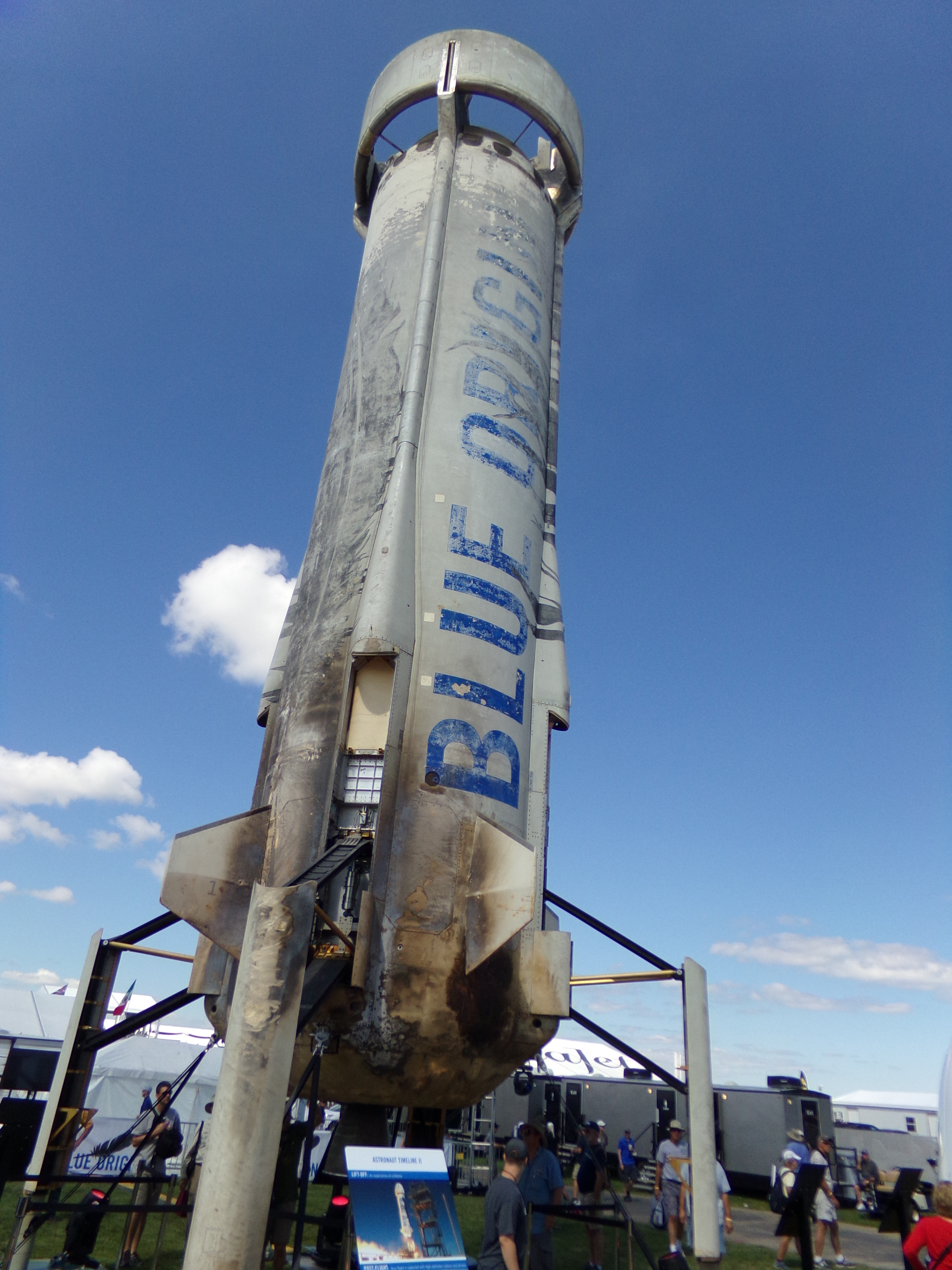 Oshkosh Airventure 2017 Oshkosh, Wisconsin, July 24th, 2017 Monday of Airshow